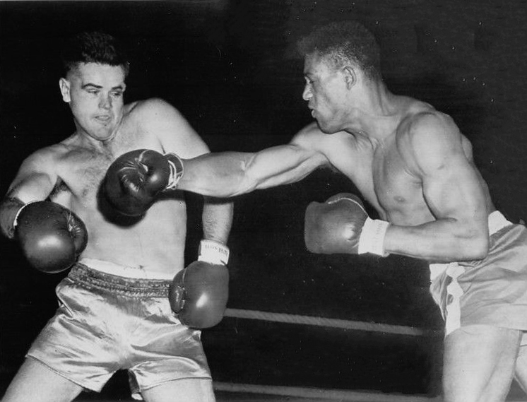 1952 American Olympic Boxing Championships Sanders vs Scheberies Press Wirephoto